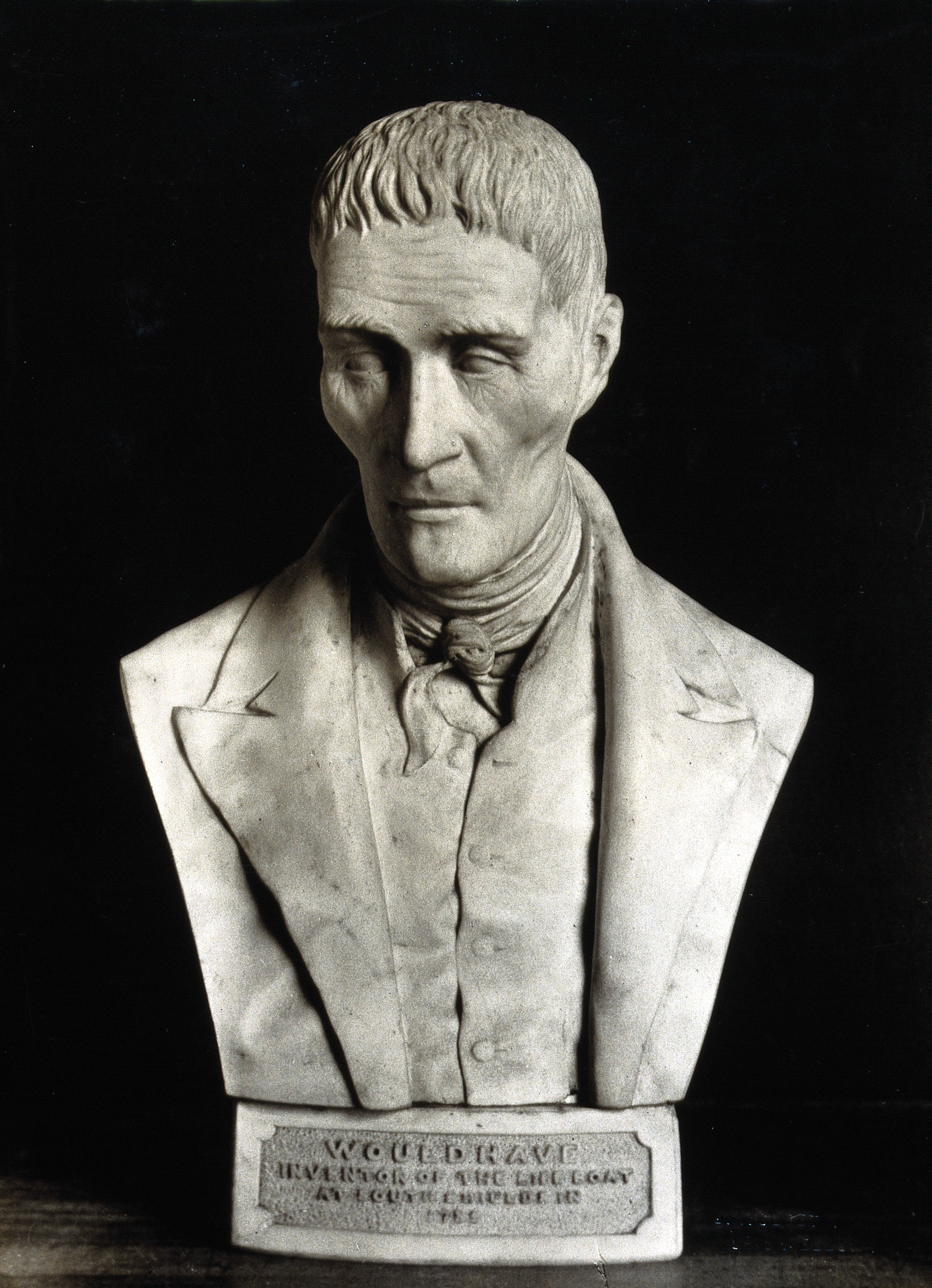 William Wouldhave. Photograph by J. H. Cleet. Iconographic Collections Keywords: portrait photographs